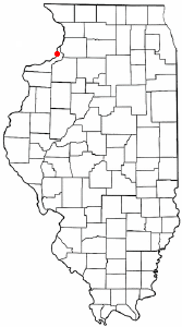 Category:Illinois city locator maps